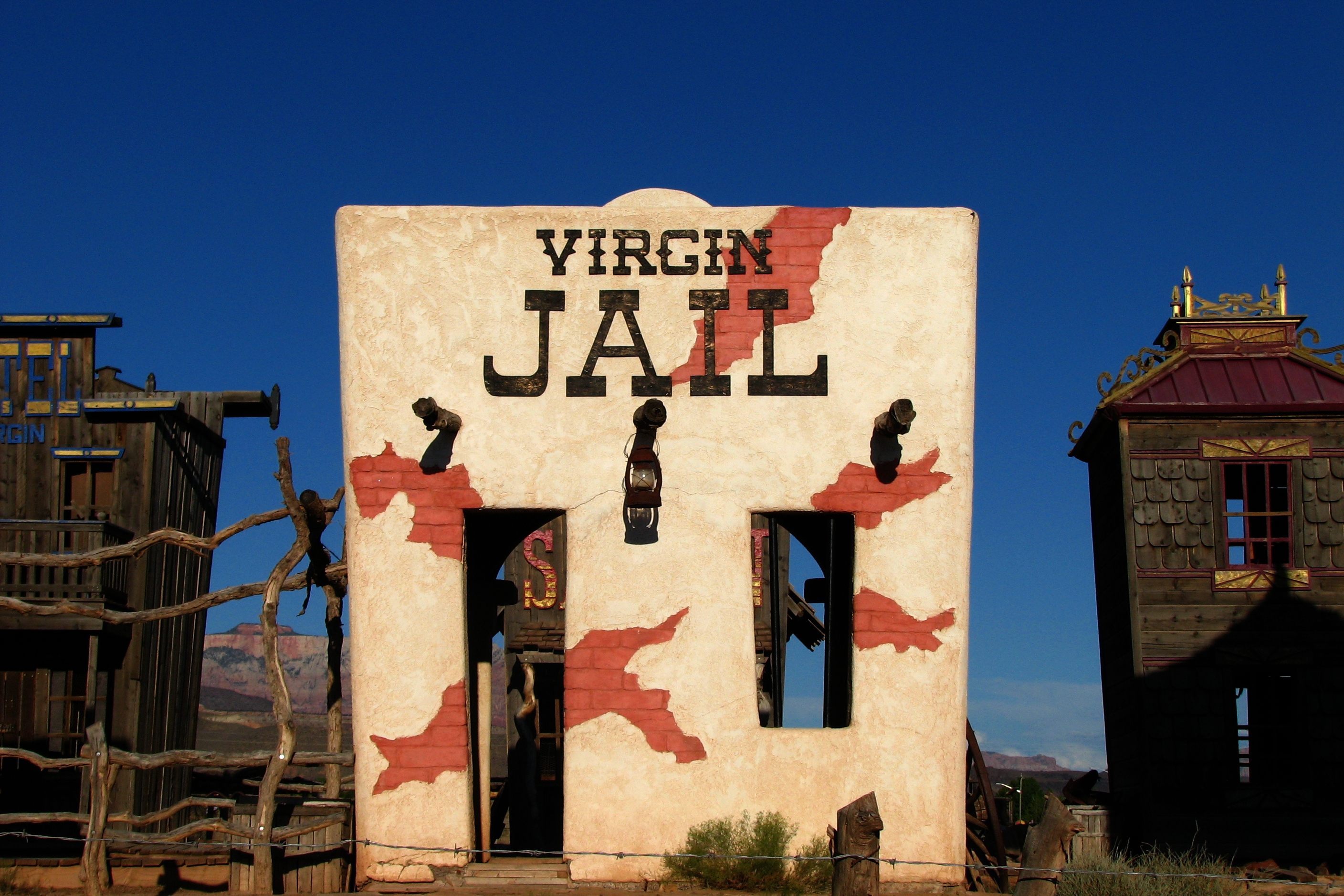 Old Virgin City Jail, Utah.